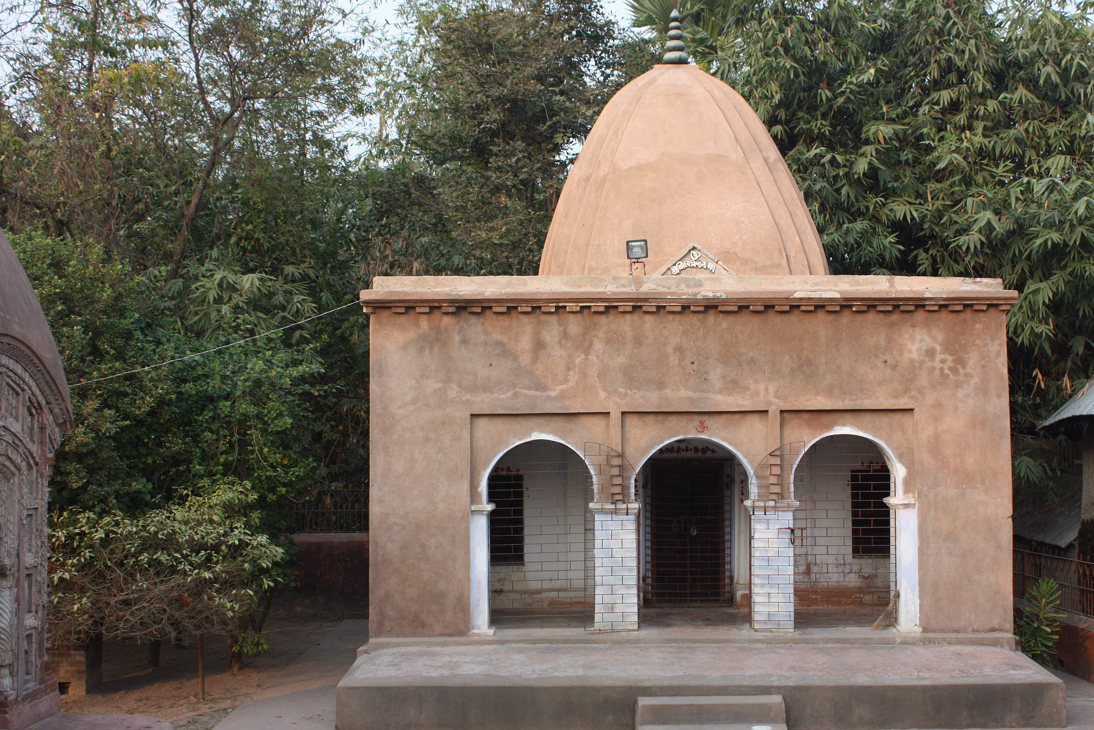 Bisalakhi temple, Nanoor Pic:Sourav Niyogi.